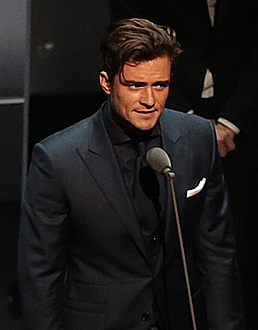 Menswear Designer: A leading British designer of ready-to-wear who has been instrumental in enhancing men’s fashion in the past year. WINNER: JW Anderson Presented by Orlando Bloom